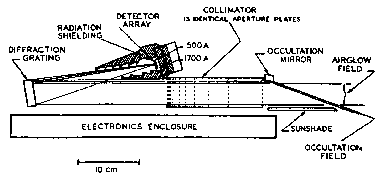 Voyager space probe: Ultraviolett Spectrometer